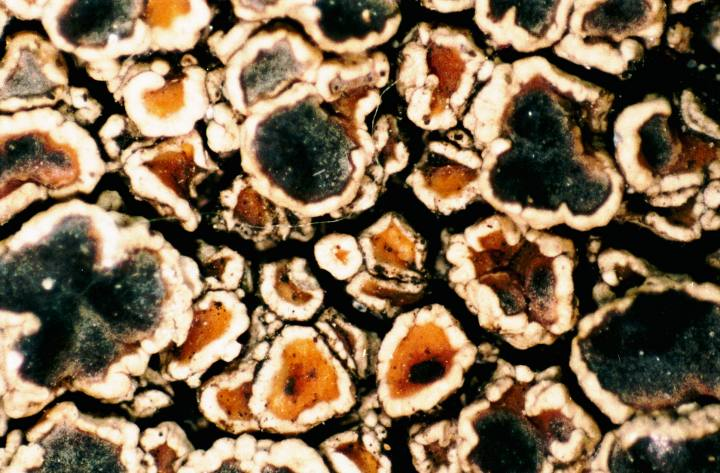 Aspicilia calcarea (L.) Körber, 1859 [Syn. Lecanora calcarea (L.) Sommerf., 1826] (photograph of a herbarium specimen taken through a dissecting microscope, x21) Growing on exposed shore rocks along Lake Superior, W side of Route 17, 12.5 miles N of Pancake Bay Provincial Park, Ontario, Canada; collected and identified by Richard E. Riefner (No. 81-518, 21 Jul 1981); specimen is now in the Lichen Herbarium of the New York Botanical Garden.